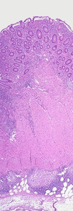 H + E section of colectomy specimen showing that the inflammation of Crohn's disease is transmural. The specimen was released into public domain on permission of patient. -- Samir धर्म 09:47, 3 June 2006 (UTC)